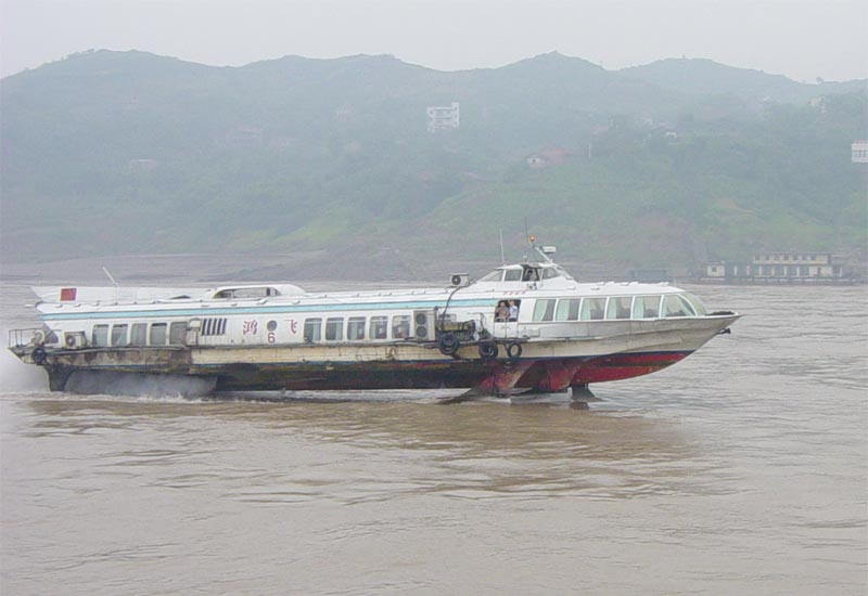 Russian designed hydrofoil on Chang Jaing (Yangtze) river. The Meteors operated between St. Petersburg and Peter the Great's summer palace are kept much better looking.